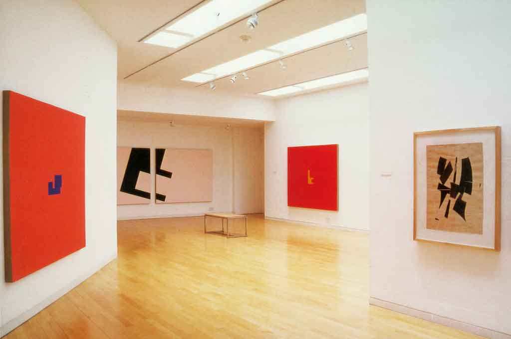 Exposición individual, Kettle's Yard, Universidad de Cambridge, 2000